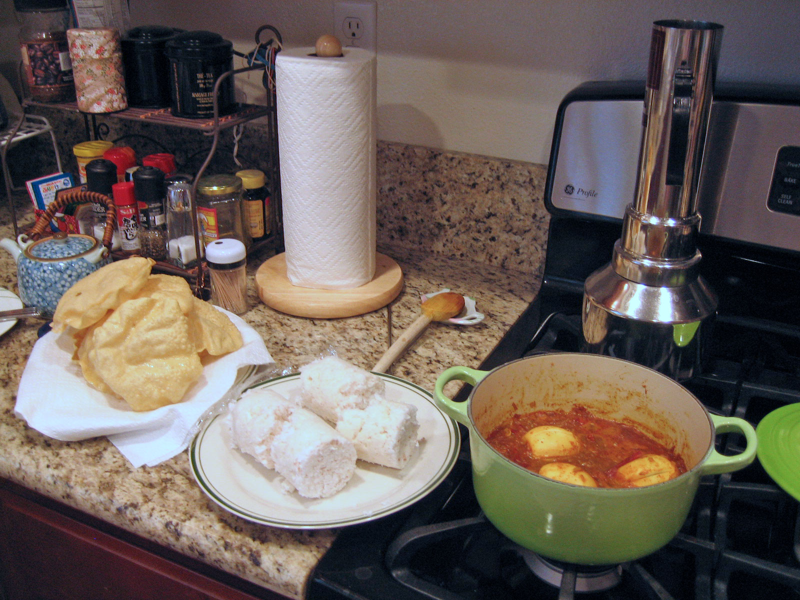 Puttu - A breakfast dish made of steamed moistened rice powder (center), popular in Kerala and parts of Tamil Nadu, India, and Sri Lanka. Here it is served with pappadums (left). Sis-in-law had cooked it.